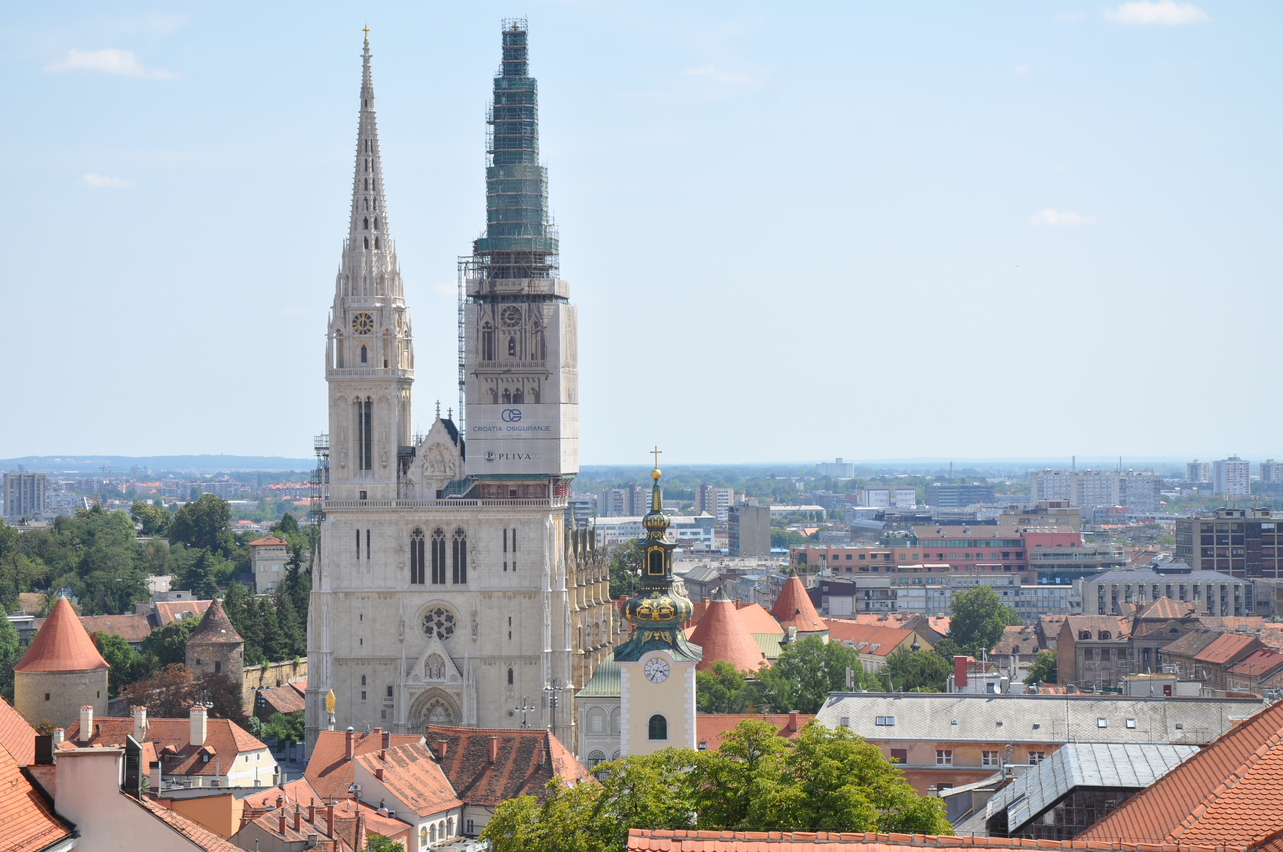 The Zagreb Cathedral on Kaptol is a Roman Catholic institution and the tallest building in Croatia. It is dedicated to the Assumption of Mary and to kings Saint Stephen and Saint Ladislaus. The cathedral is typically Gothic, as is its sacristy, which is of great architectural value. Its spires can be seen from many locations in the city. History Construction on the cathedral started in 1093, but the building was destroyed by the Tatars in 1242. At the end of the 15th century, the Ottoman Empire invaded Bosnia and Croatia, triggering the construction of fortification walls around the cathedral, some of which are still intact. In the 17th century, a fortified renaissance watchtower was erected on the south side, and was used as a military observation point, because of the Ottoman threat. The cathedral was severely damaged in the 1880 Zagreb earthquake. The main nave collapsed and the tower was damaged beyond repair. The restoration of the cathedral in the Neo-Gothic style was led by Hermann Bollé, bringing the cathedral to its present form. As part of that restoration, two spires 108 m (354 ft) high were raised on the western side, both of which are now in the process of being restored as part of an extensive general restoration of the cathedral. The cathedral is depicted on the reverse of the Croatian 1000 kuna banknote issued in 1993. When facing the portal, the building is 46 meters wide and 108 meters high. The cathedral contains a relief of Cardinal Aloysius Stepinac with Christ done by the Croatian sculptor Ivan Meštrović. The cathedral was visited by Pope Benedict XVI on 5 June 2011 where he celebrated Sunday Vespers and prayed before the tomb of Blessed Aloysius Stepinac